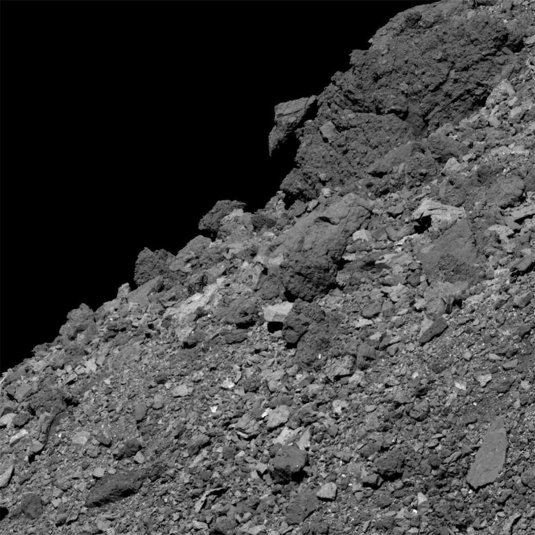 This image shows asteroid Bennu’s boulder-covered surface. It was taken by the PolyCam camera on NASA’s OSIRIS-REx spacecraft on April 11, 2019, from a distance of 2.8 miles (4.5 km). The field of view is 211 ft (64.4 m), and the large boulder in the upper right corner of the image is 50 ft (15.4 m) tall. When the image was taken, the spacecraft was over the southern hemisphere, pointing PolyCam far north and to the west.